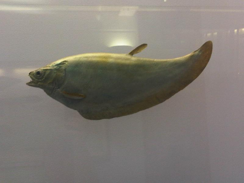 Clown knifefish (Chitala chitala) at the Natural History Museum in London, England.